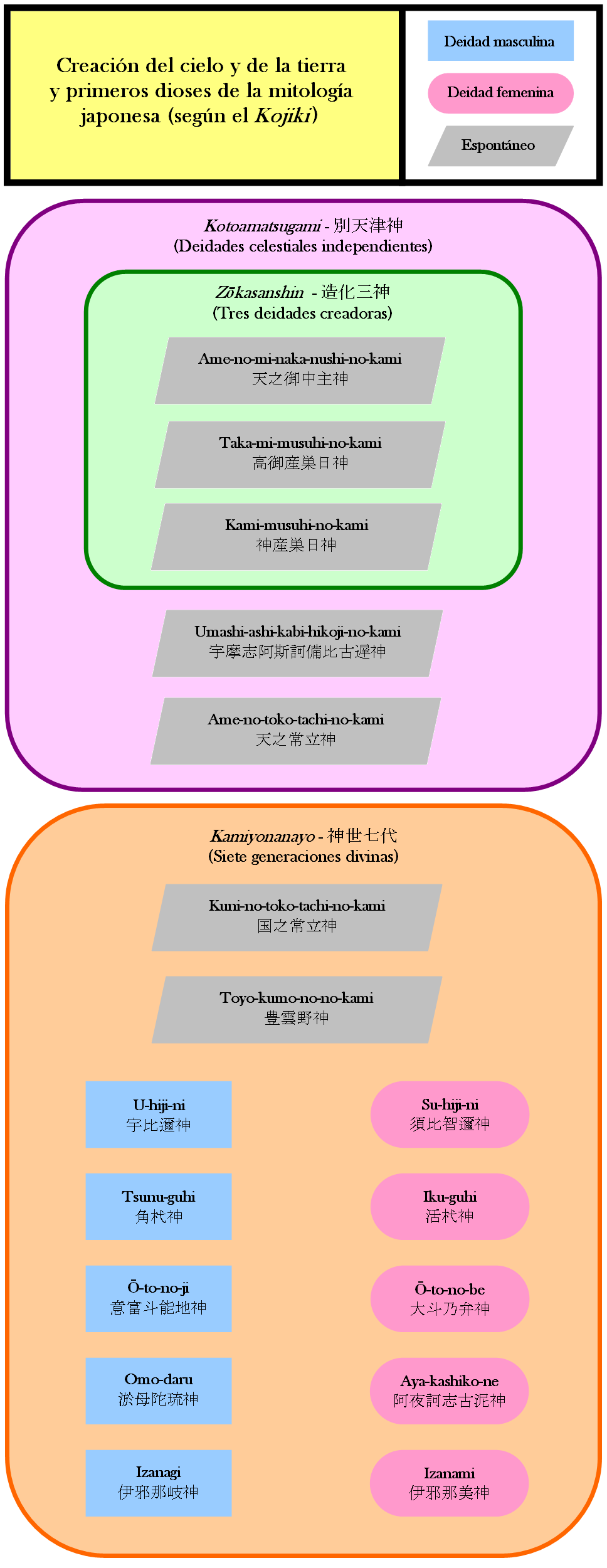 The creation of the world in the Shinto